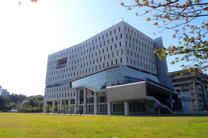 Yuan Ze University 7th Building